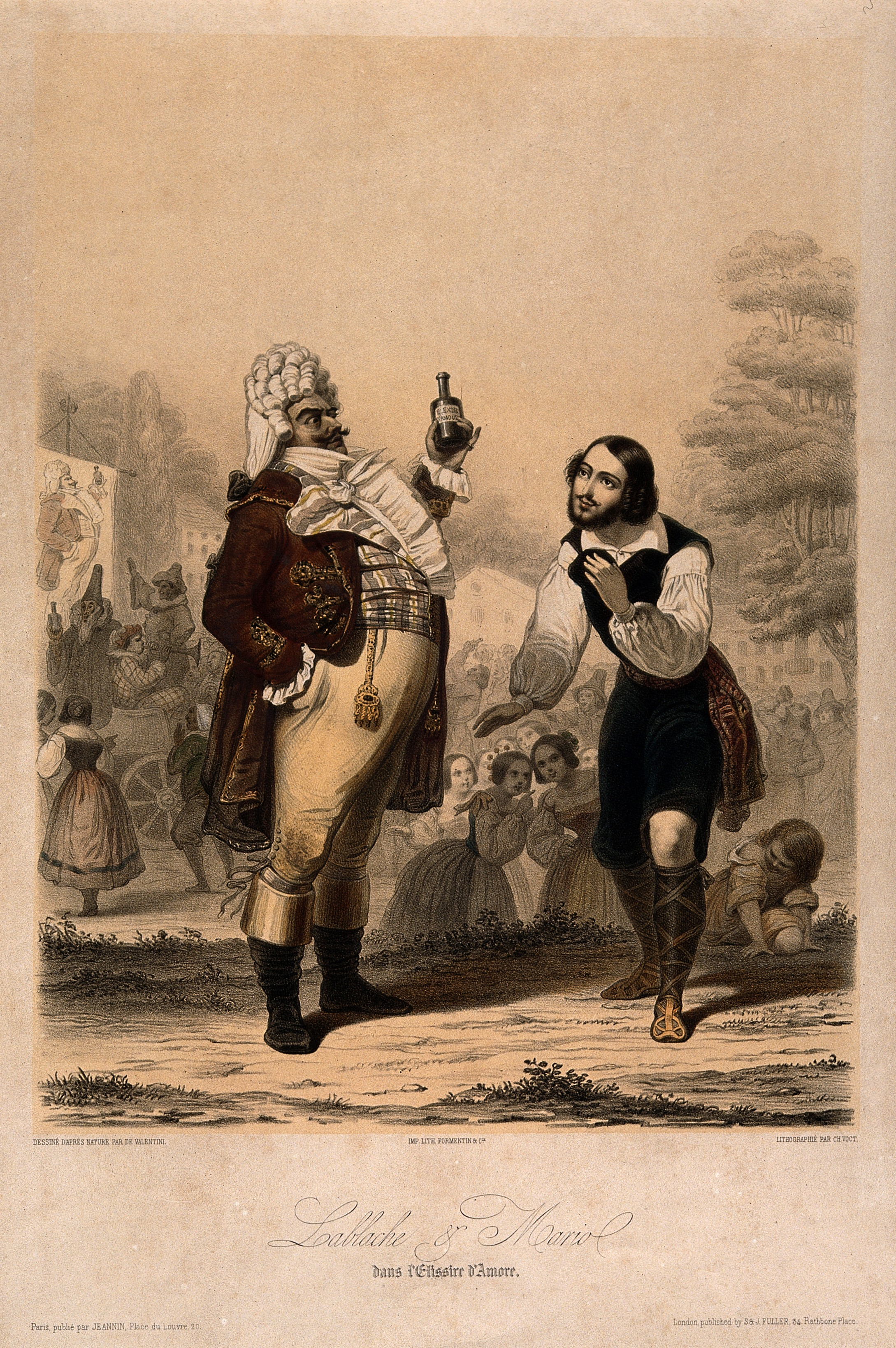 Lablache, a flamboyant itinerant medicine vendor selling Mariol an aphrodisiac at a country fair. Coloured lithograph by C. Voct after A. de Valentini. Iconographic Collections Keywords: C. Voct; Mariol; Lablache; Alexandre de Valentini